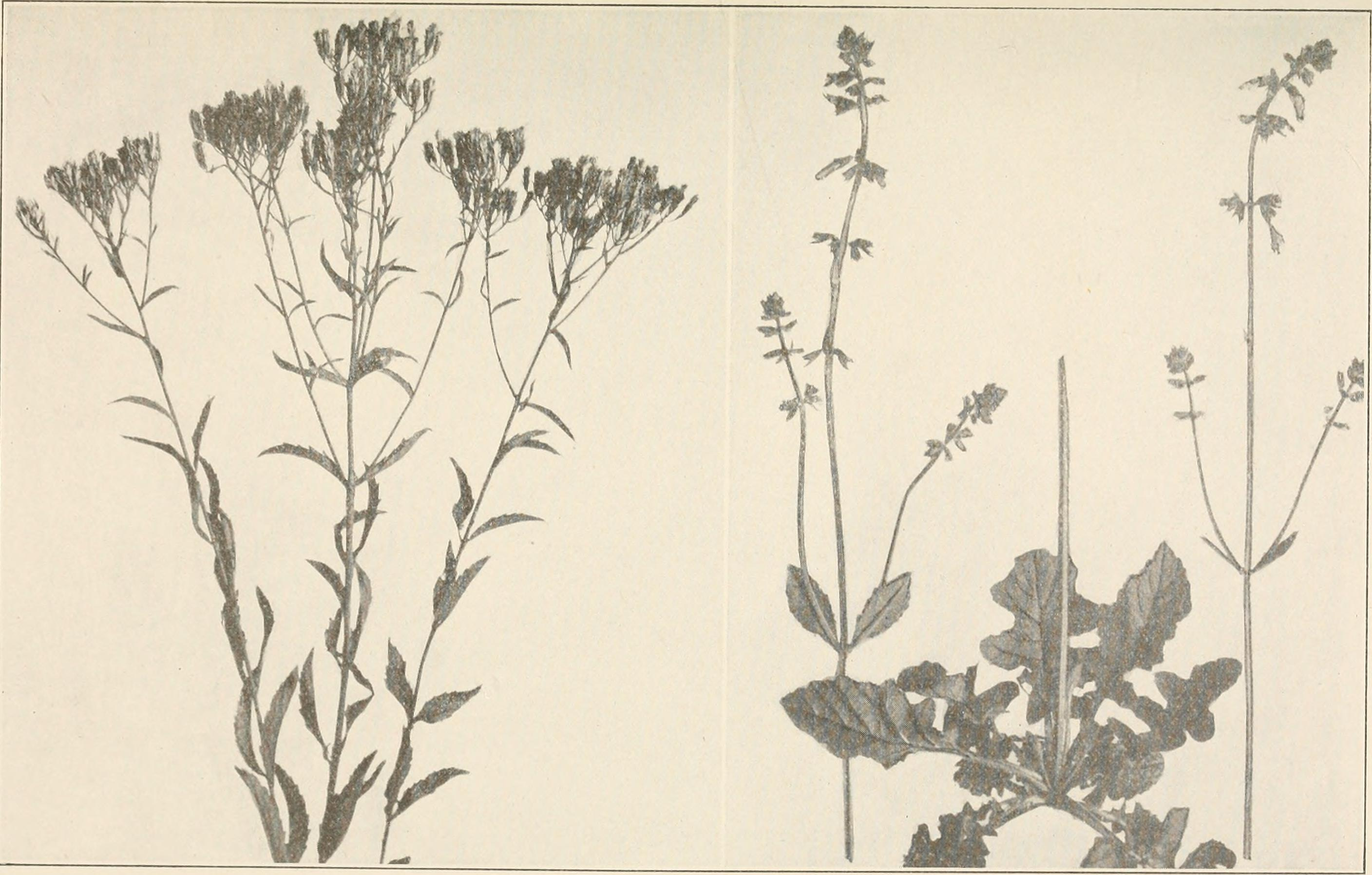 Title: The plants of southern New Jersey; with especial reference to the flora of the pine barrens and the geographic distribution of the species Year: 1911 (1910s) Authors: Stone, Witmer, 1866-1939 Subjects: Plants -- New Jersey Phytogeography -- New Jersey Plants -- New Jersey Pine Barrens Publisher: Trenton Text Appearing Before Image: ' Text Appearing After Image: P Q. N. J. Plants. PLATE CXXtV.